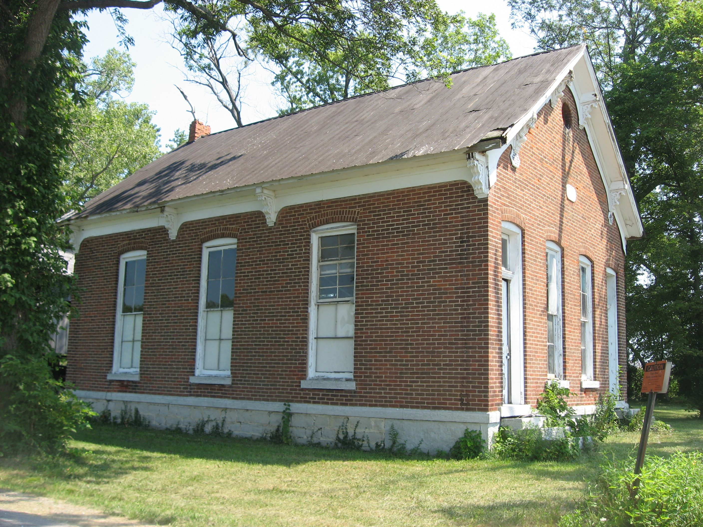 Front and western side of the Liberty Township Schoolhouse No. 2, located on the northeastern corner of the junction of State Road 244 and County Road 600E northeast of Waldron in Liberty Township, Shelby County, Indiana, United States. Built in 1875, it is listed on the National Register of Historic Places.